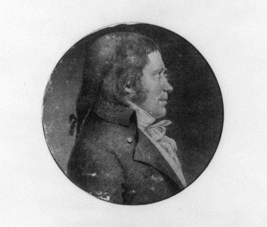 Portrait of James Machir